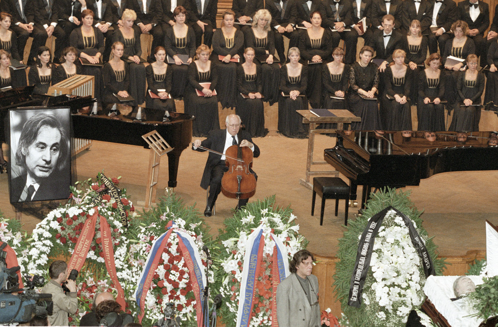 “Funeral of composer Alfred Shnitke”. Cellist Mstislav Rostropovich pays tribute to the composer at the civil funeral rites for Alfred Shnitke in the Grand Hall of the Moscow Conservatory.